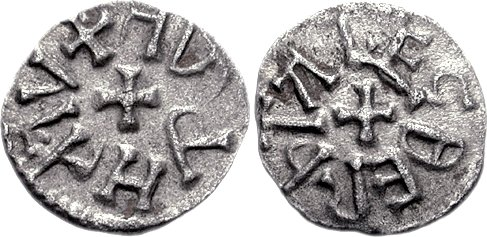 Anglo-Saxons, Kings of Northumbria. Alhred of Northumbria, with Archbishop Ecgberht. 765-774. AR Sceat (1.03 g, 5h). York mint. +ALtHRDL (retrograde), cross pattée EGBERhT AR, cross pattée. Beowulf 113 (this coin); Pirie, Guide 2.6a; North 193; SCBC 854. Good VF, toned, a little porous.